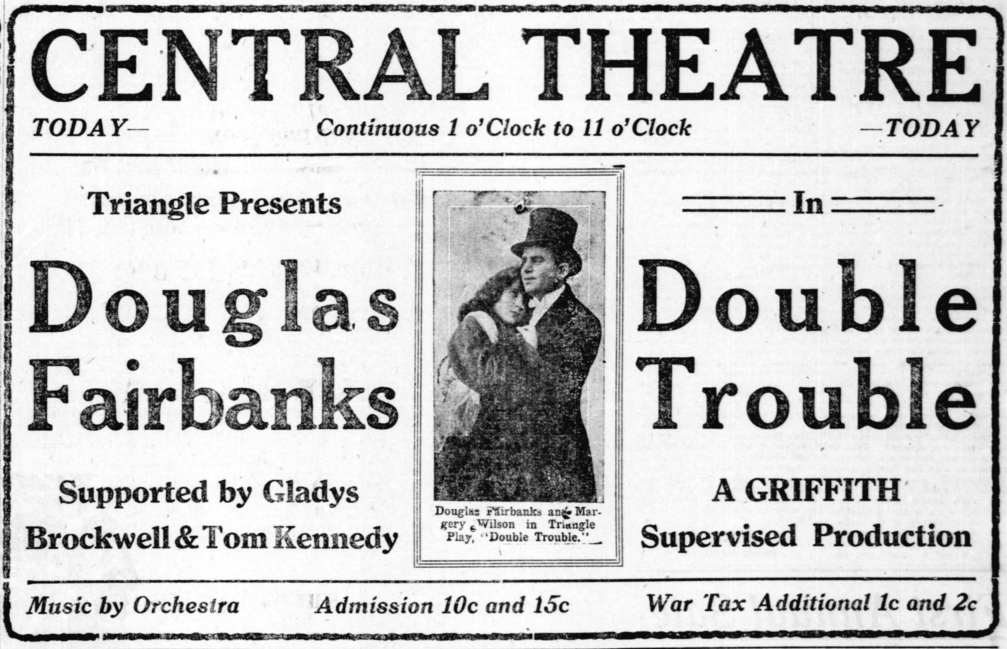 Double Trouble (1915) is a silent film comedy produced by Fine Arts Film Company and distributed by Triangle Film Corporation. This is a newspaper advertisement from a few years after the initial release (1917).